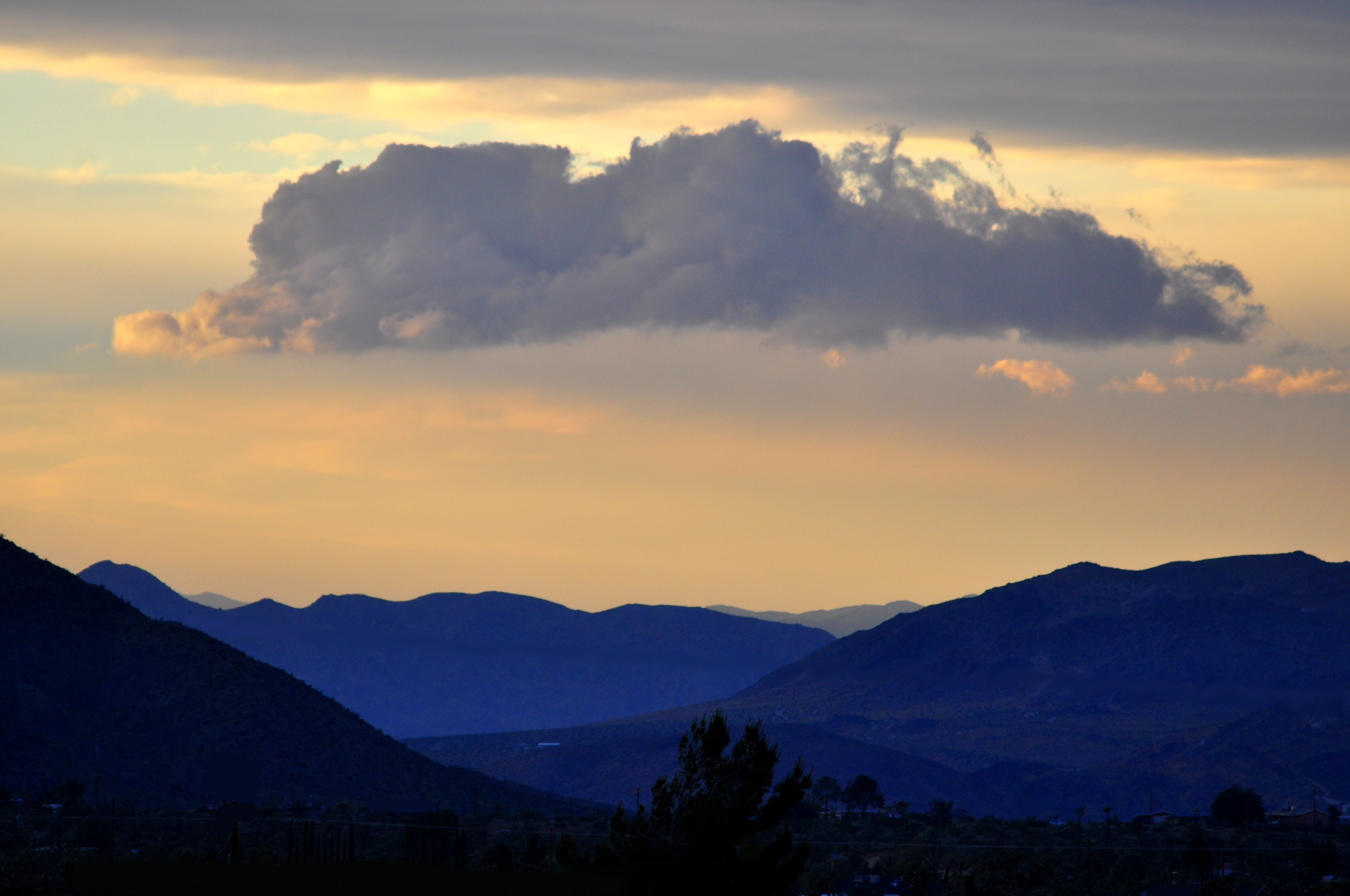 Shot from a hill in Landers, California, looking into the hillsides of Johnson Valley, California with a 300mm Lens